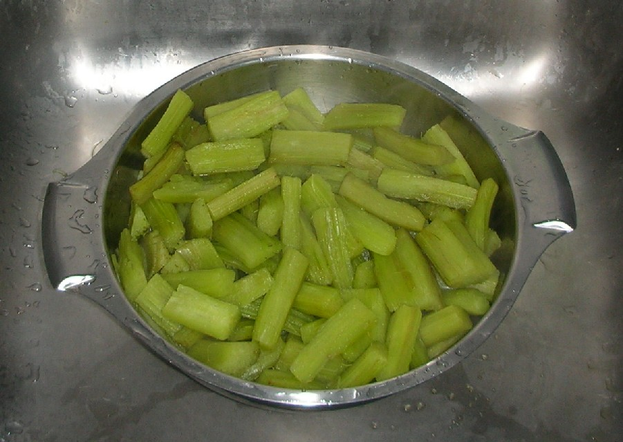 Boiled cardoon pieces